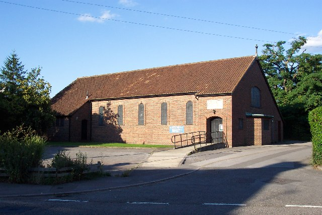 Roman Catholic church, Kingfield, Woking. This modern Catholic church is expected to be demolished in the near future and replaced by housing.